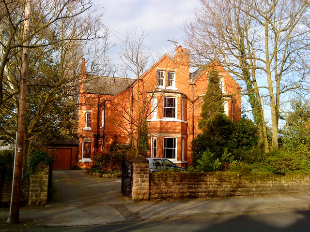 Devonshire Avenue, Beeston